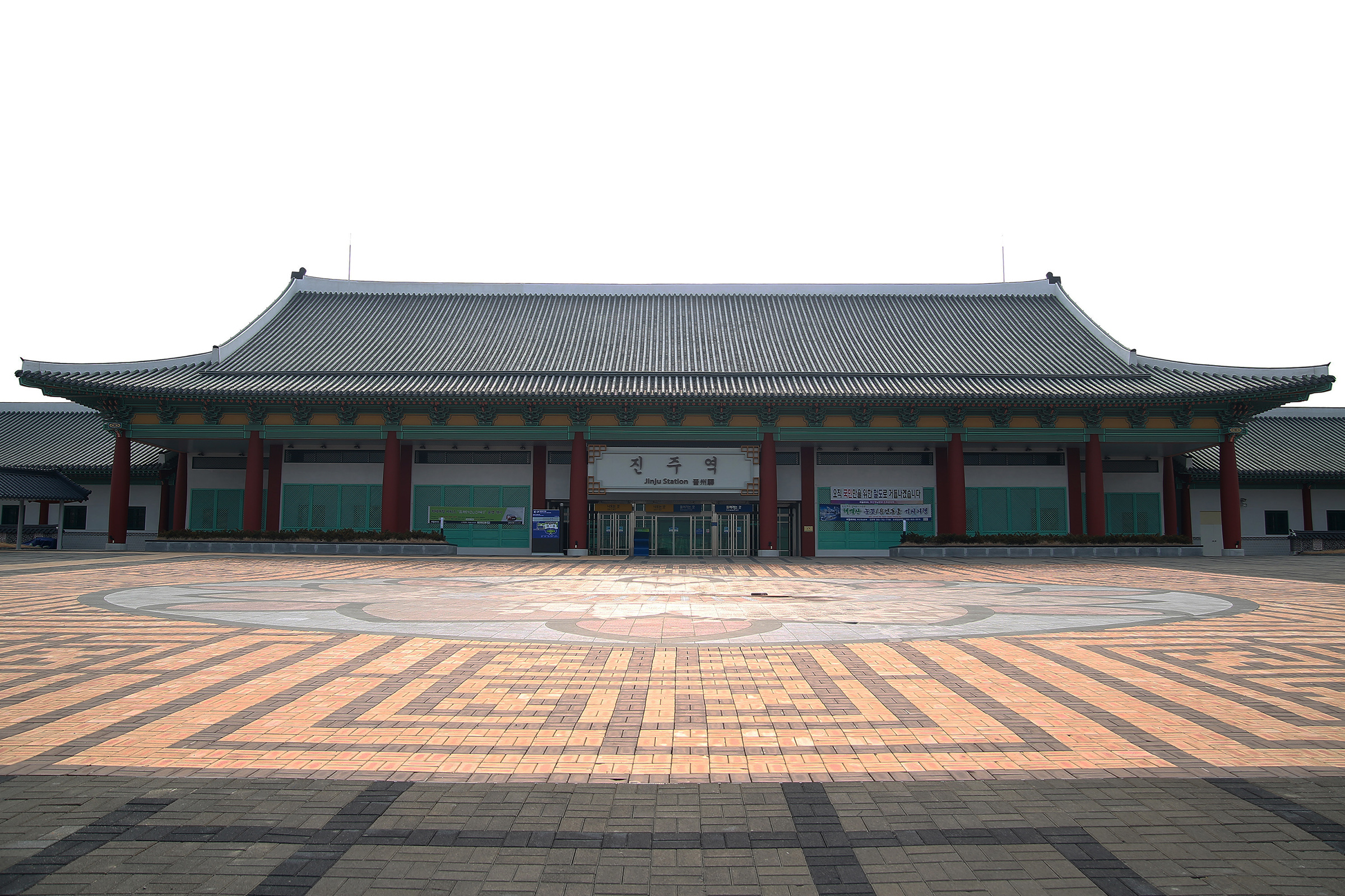 Frontview of Jinju Station and square